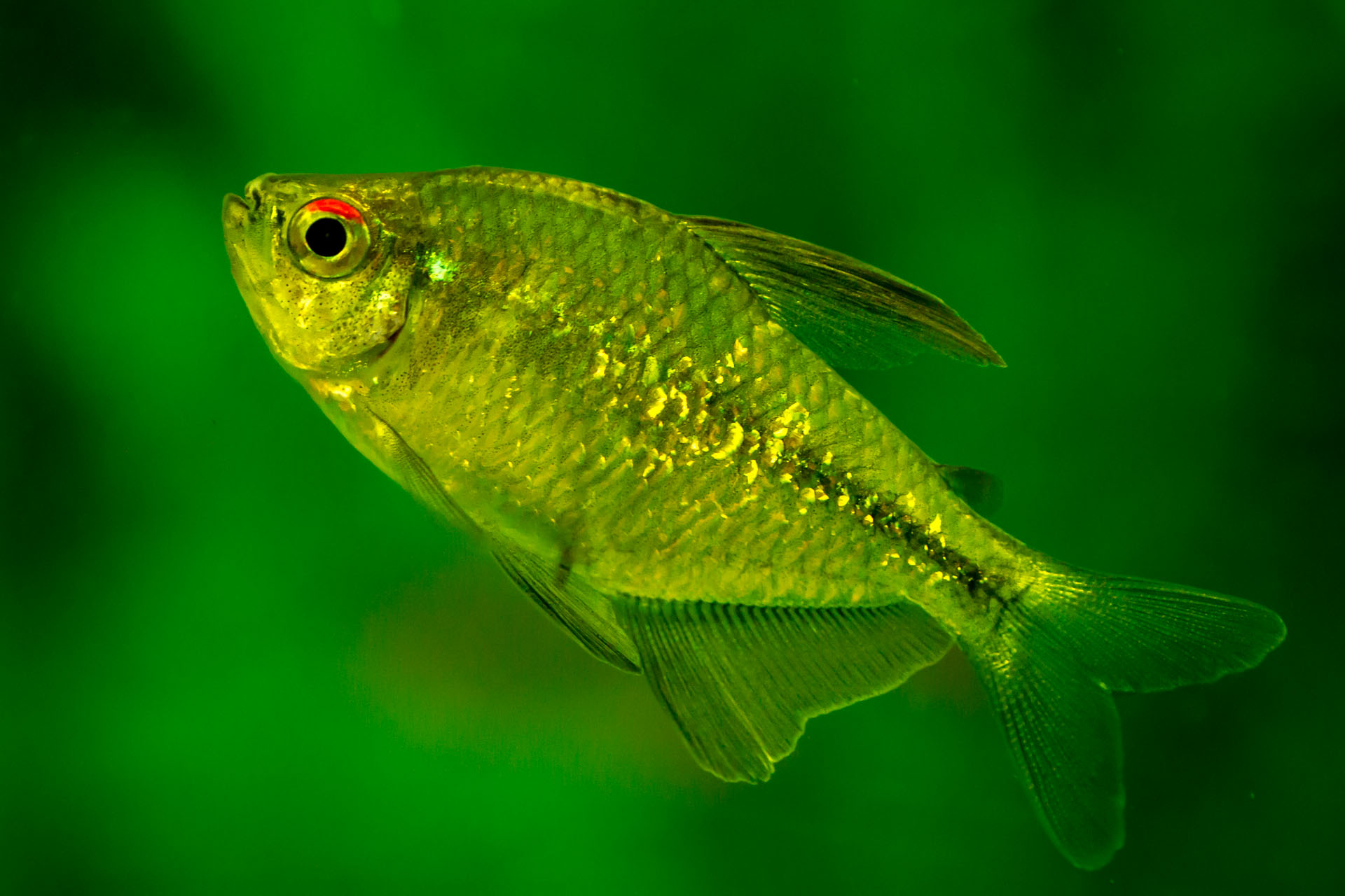 A diamond tetra fish